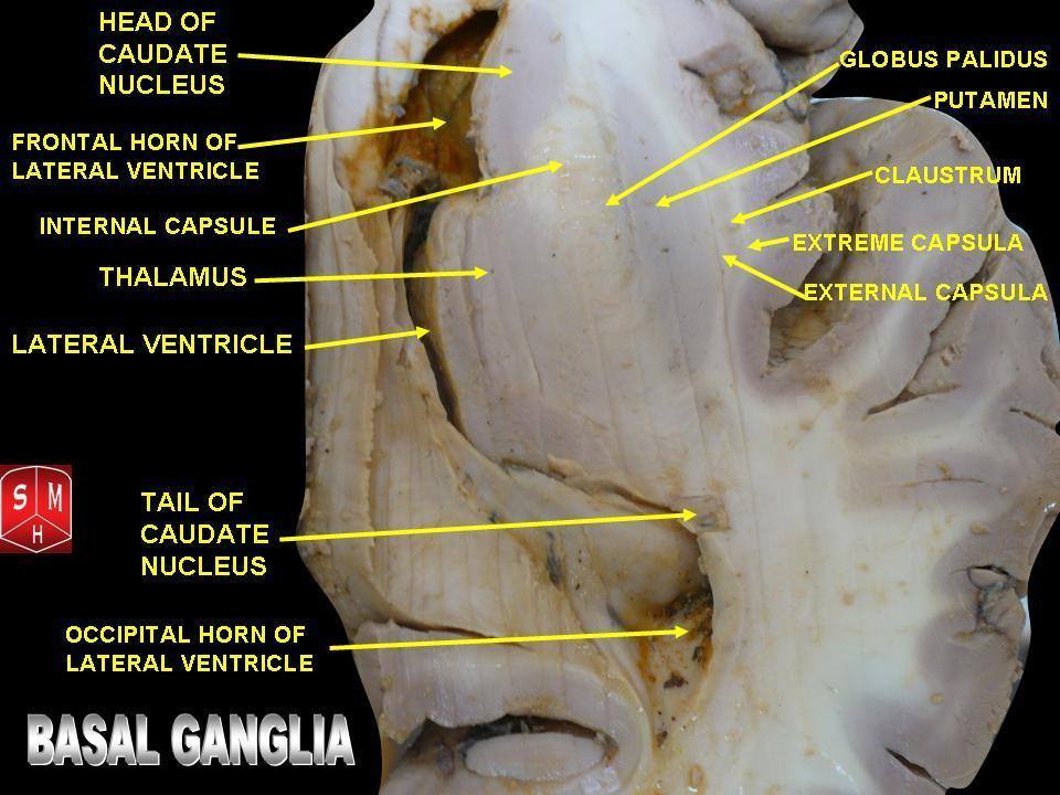 Basal ganglia